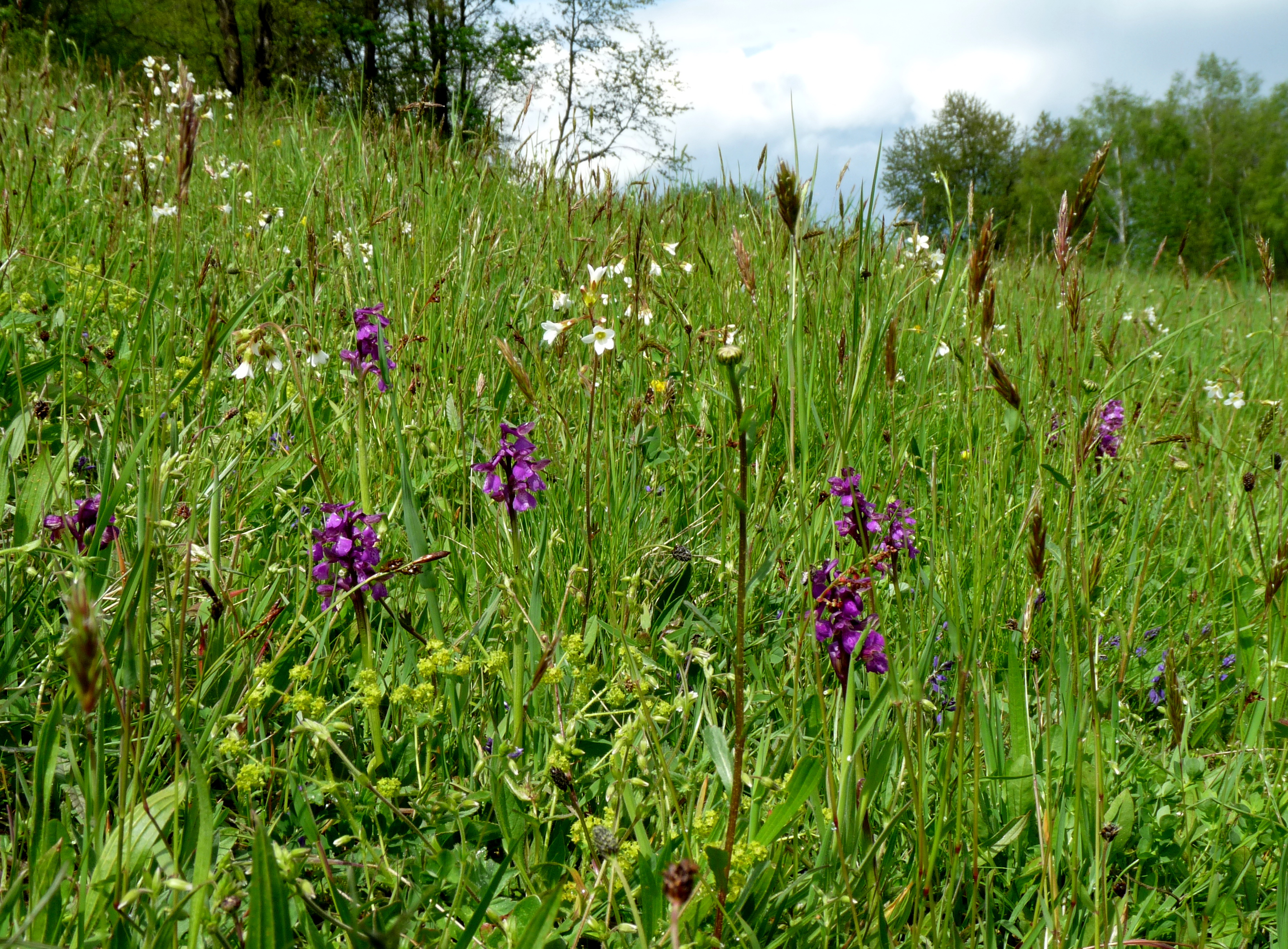 Anacamptis morio near the village of Zábrdí, Prachatice District, South Bohemian Region, Czech Republic.